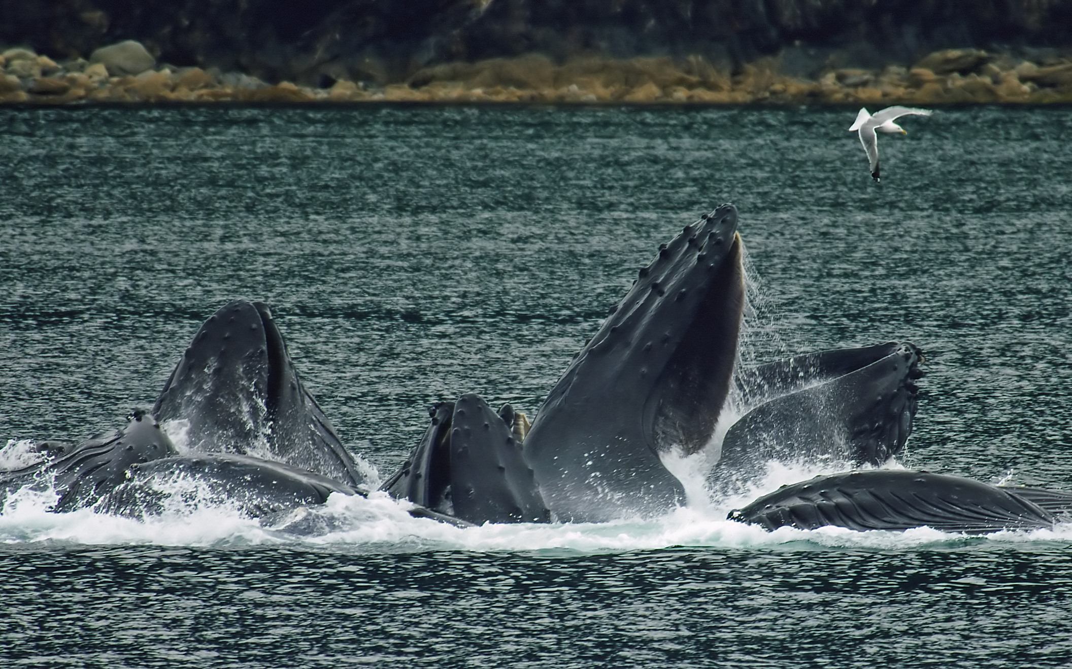 Humpback whales in North Pass between Lincoln Island and Shelter Island in the Lynn Canal north of Juneau, Alaska. This is a group of 15 whales that were bubble net fishing on 18 August 2007.